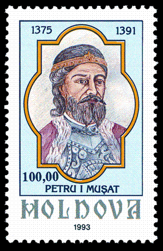 Stamp of Moldova